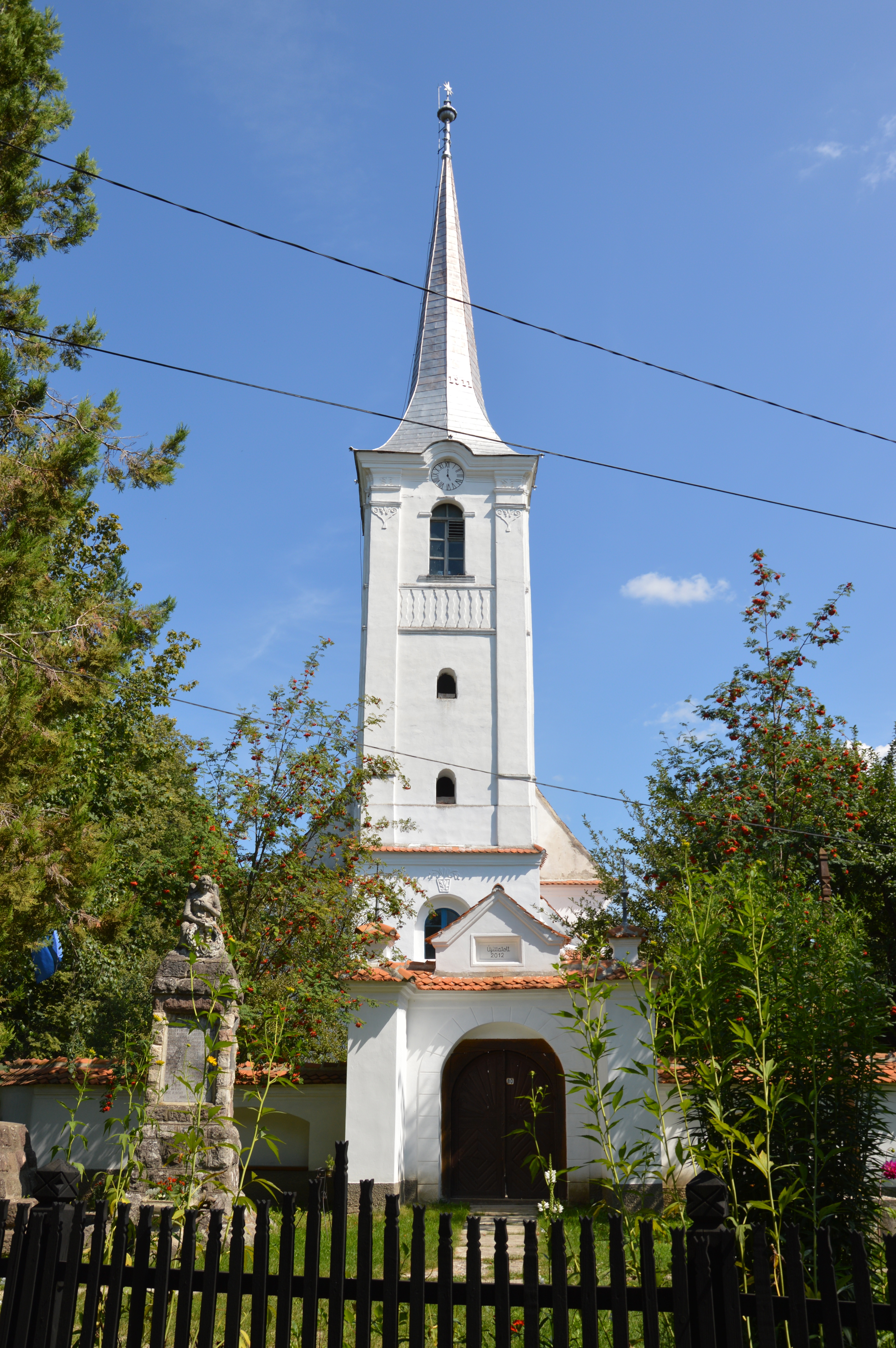 The reformed church in Bățanii Mici